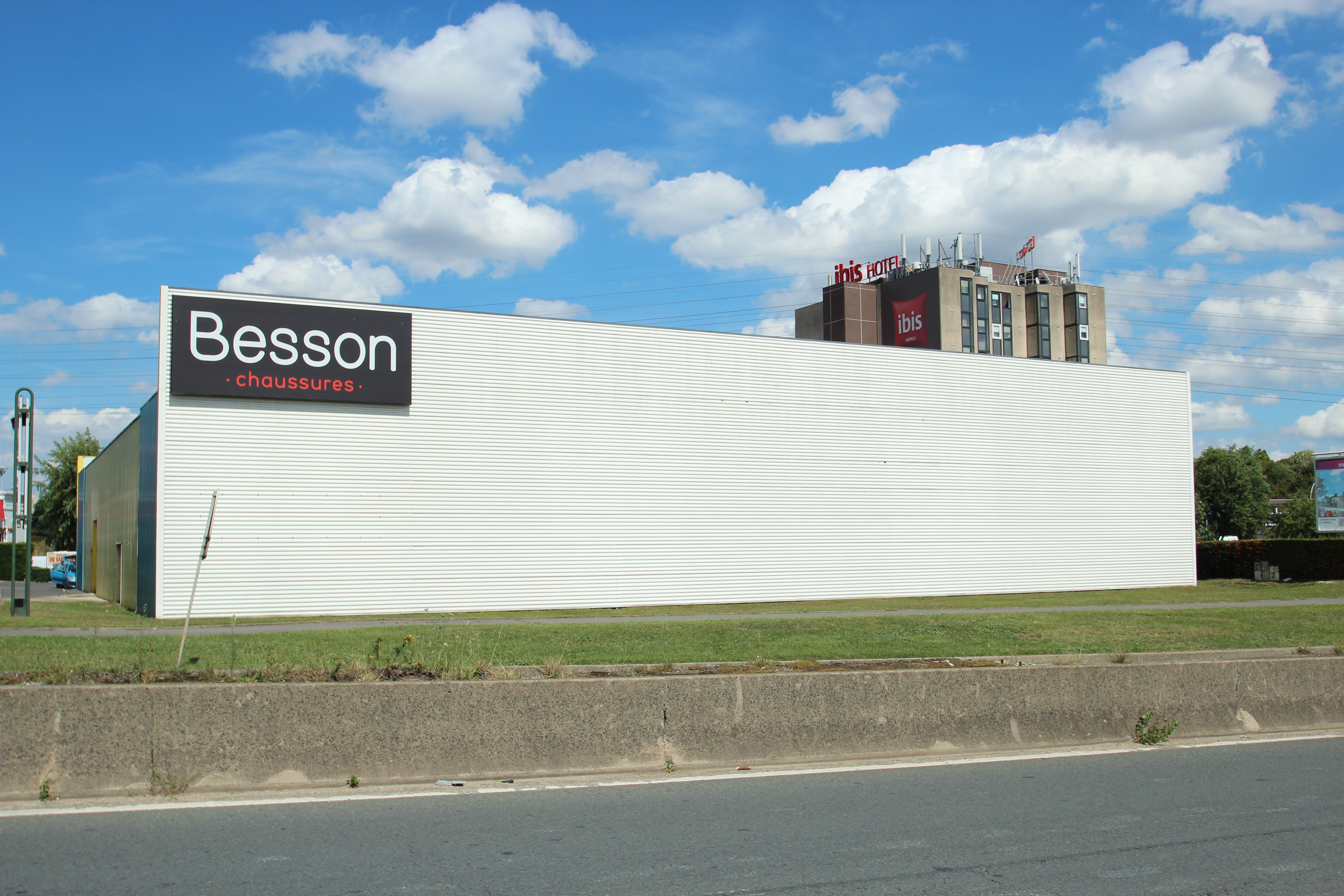 The Carrefour Pompadour (Pompadour roundabout in french) in Créteil, France. Object location48° 46′ 27.77″ N, 2° 26′ 21.26″ E This picture as been uploaded as part of L'Été des régions Wikipédia.